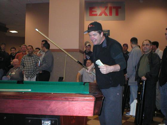 McCready at Super Billiards Expo in Valley Forge, Pennsylvania, engaged in games of stake on "Action Table" in 2004